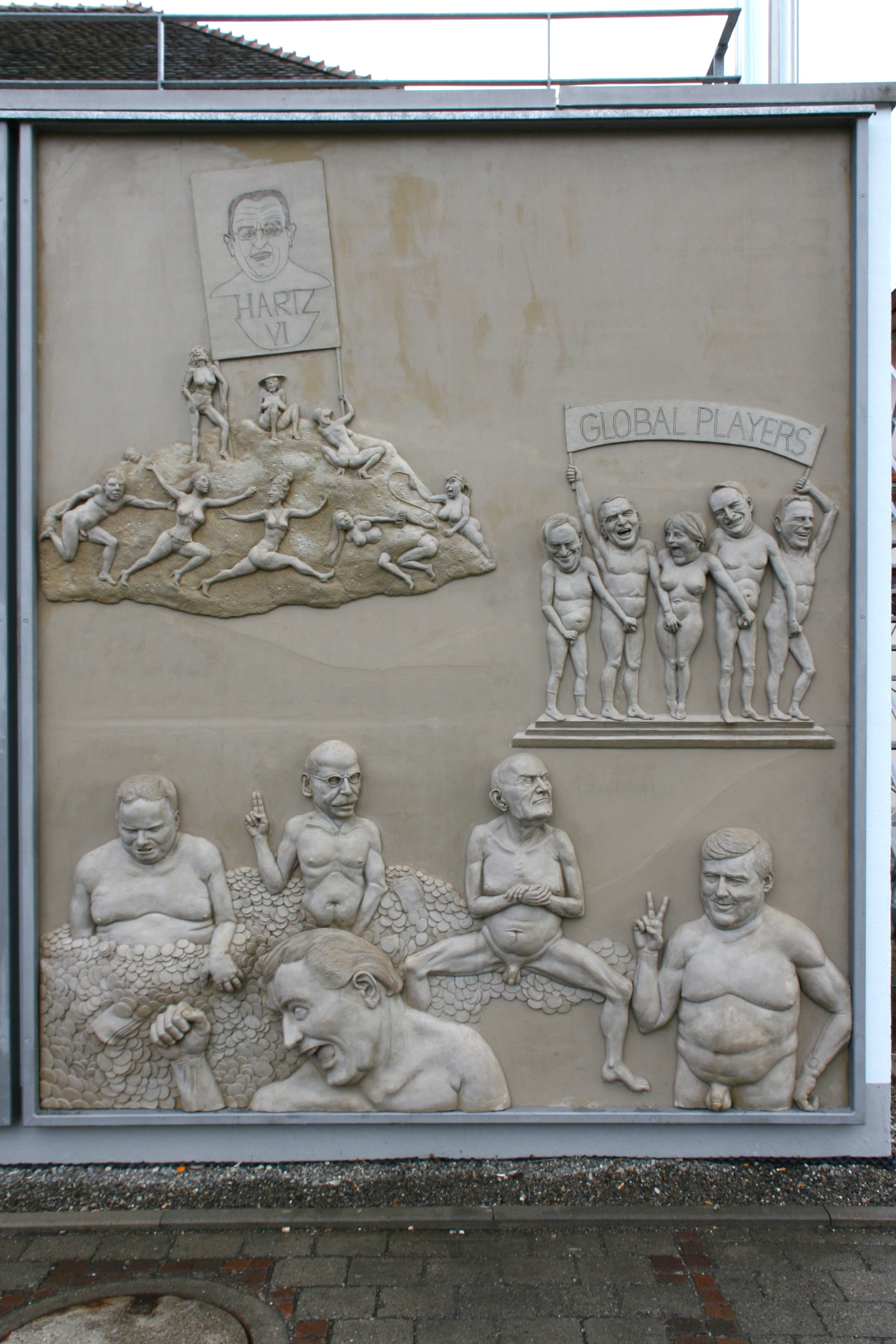 Relief Ludwigs Erbe by Peter Lenk, close to Zollhaus and tourist information, Hafenstraße 5, Ludwigshafen am Bodensee, Bodman-Ludwigshafen in Germany: Right-hand part of the triptych